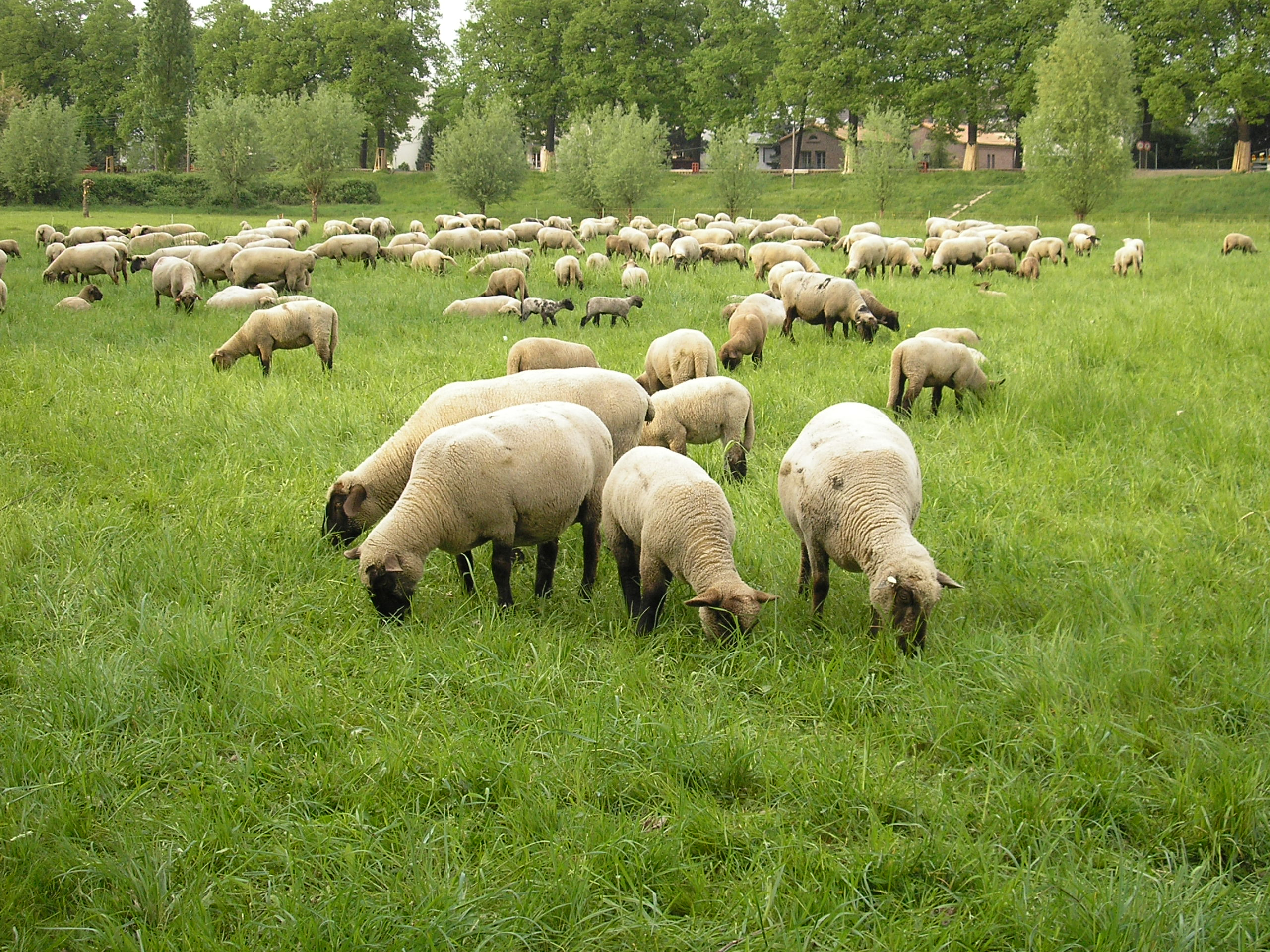 Cologne-Poll